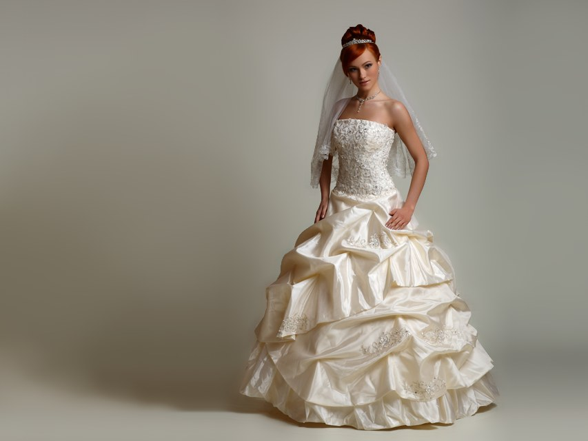 Italian Satin wedding dress